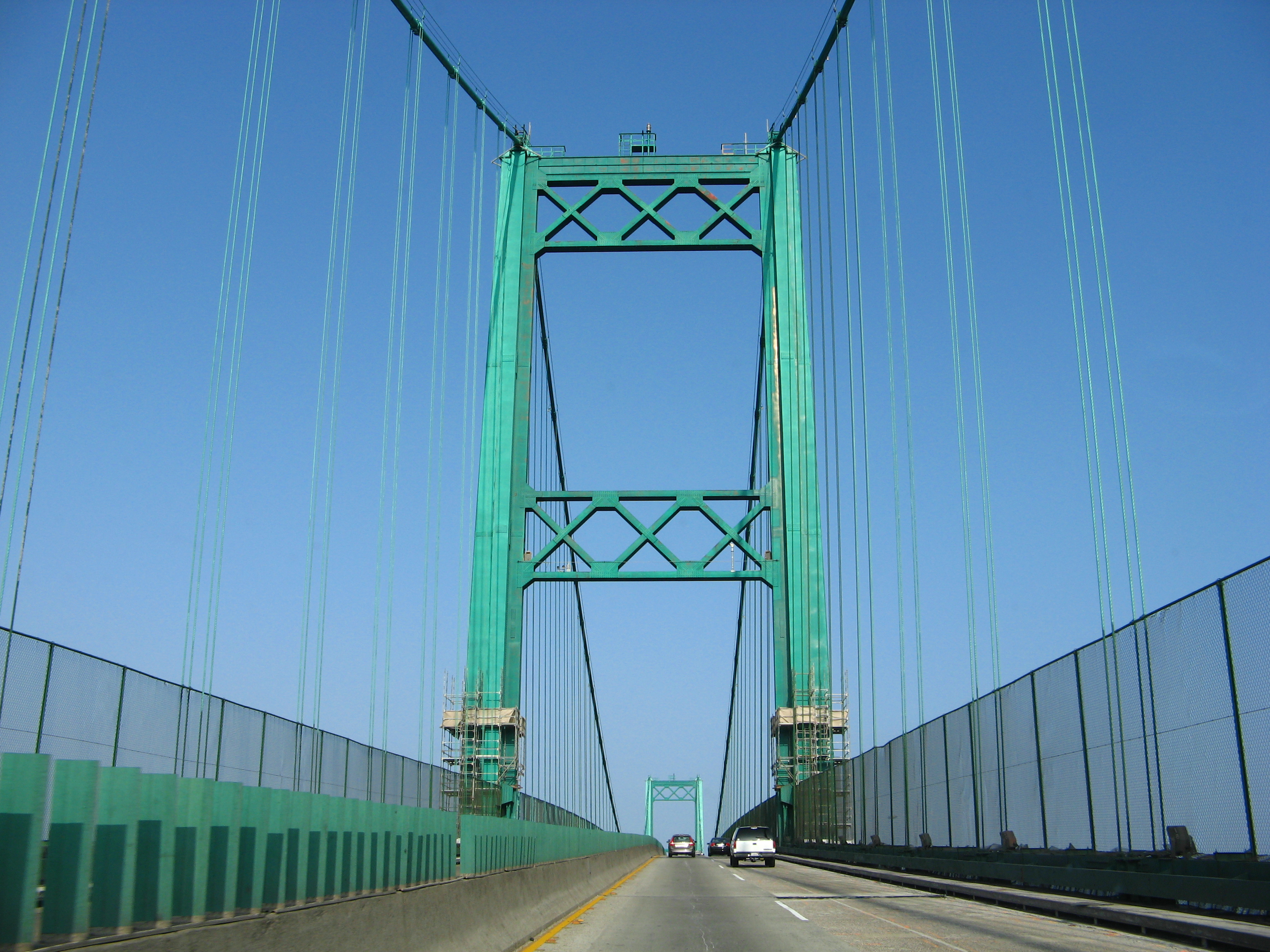 Travelling south along the span